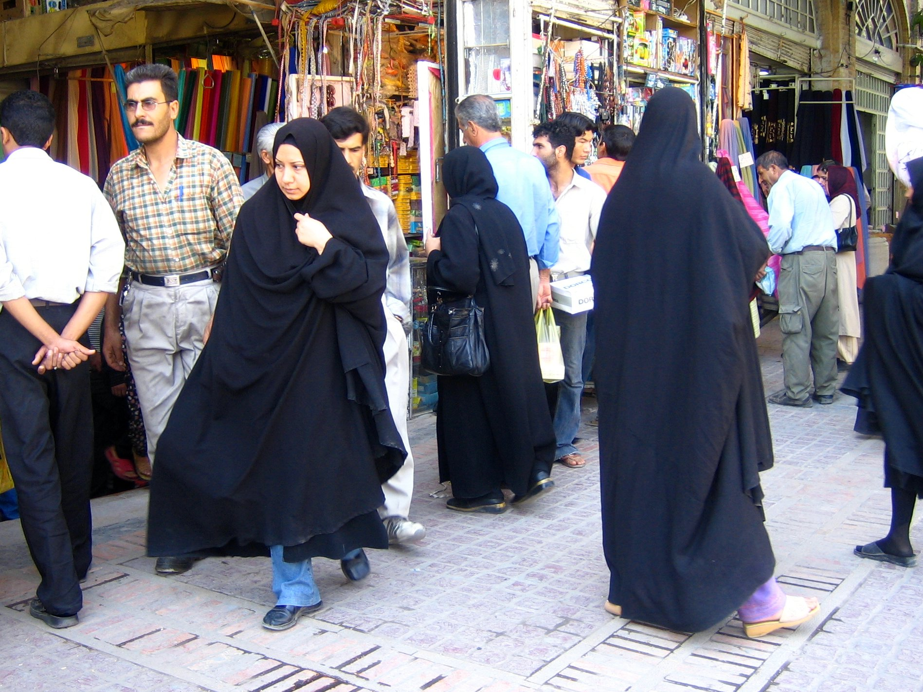 Women on the street in Shiraz